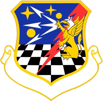 Emblem of the 419th Fighter Wing, a wing of the United States Air Force. Approved on 2 Dec 1982.